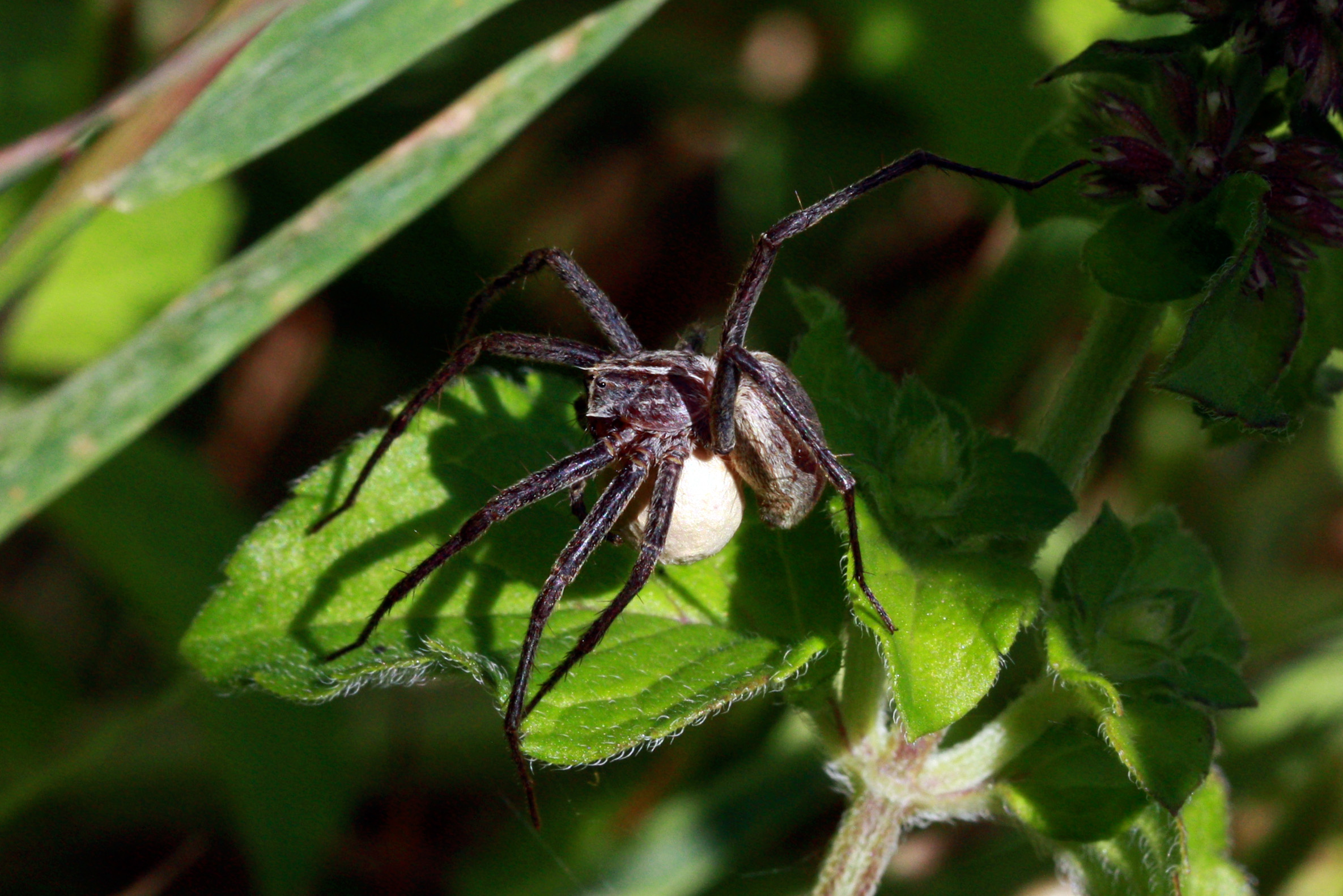 Nursery web spider (Pisaura mirabilis)